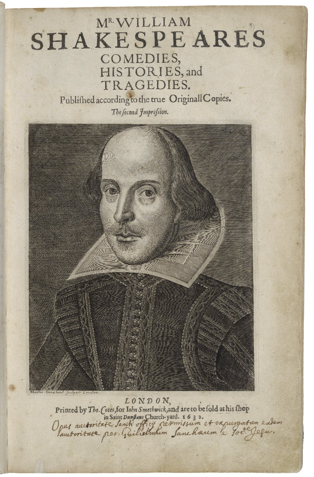 Title page of Shakespeare's second folio, from Folger copy STC 22274 Fo.2 no.07